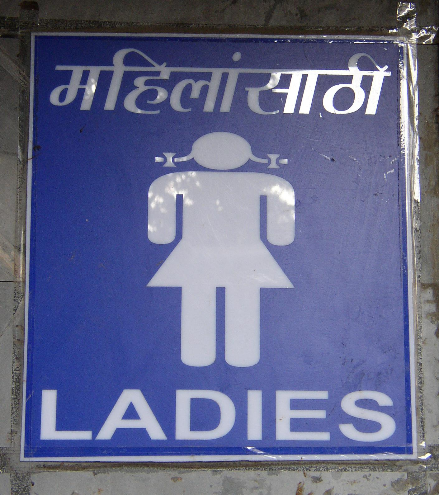 Toilet sign in Mumbai in Maharashtra, India